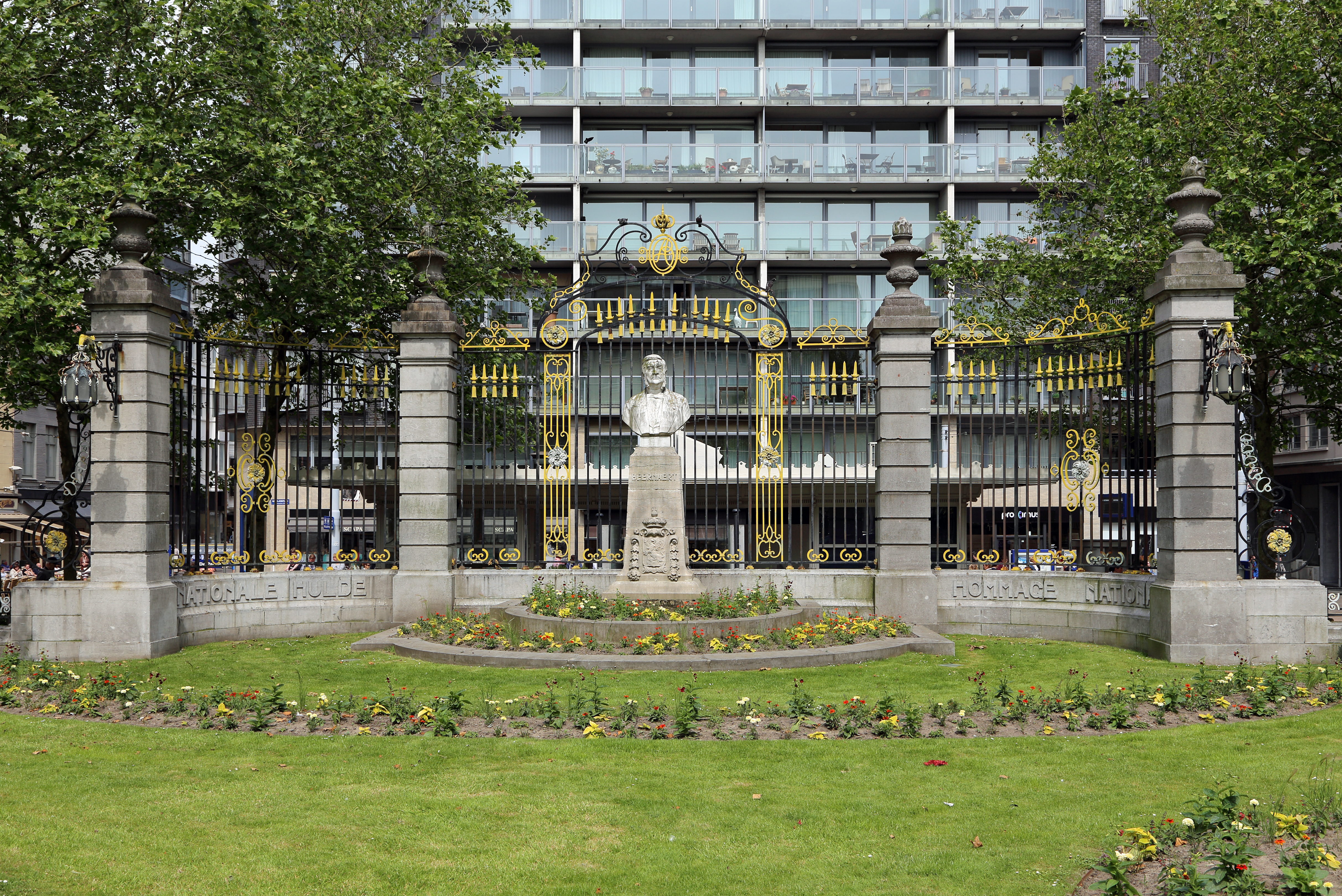 Ostend (Belgium), Marie-José square: monument for Auguste Beernaert, Belgian statesman born in Ostend